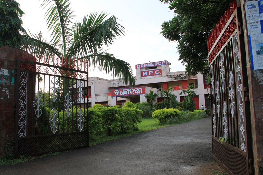 The Post Graduate Department of Commerce at Utkal University.